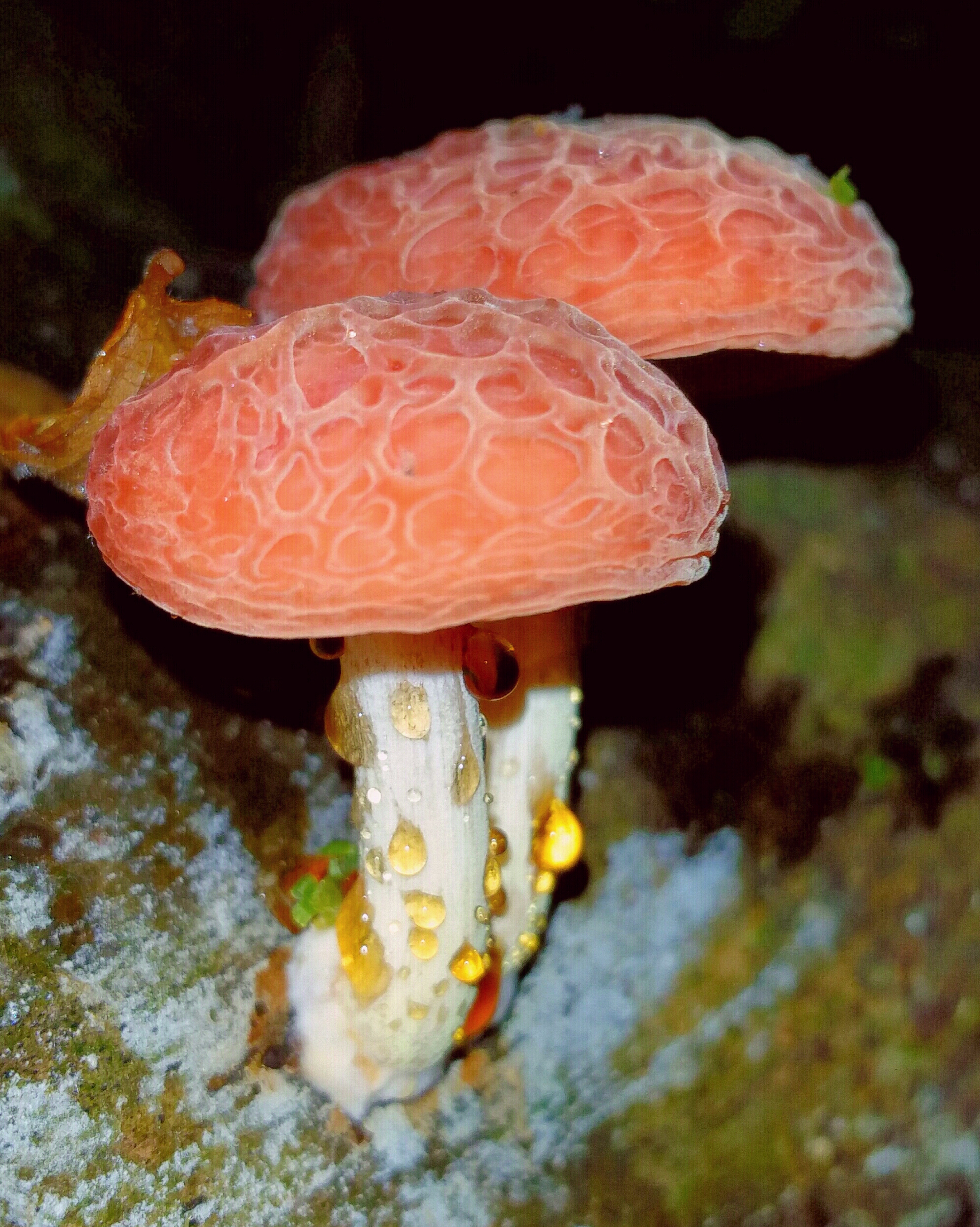 Rhodotus palmatus (Bull.) Maire Image location: Batavia Township Sports Complex, Batavia, Ohio, USA Recognized by sight For more information about this, see the observation page at Mushroom Observer.